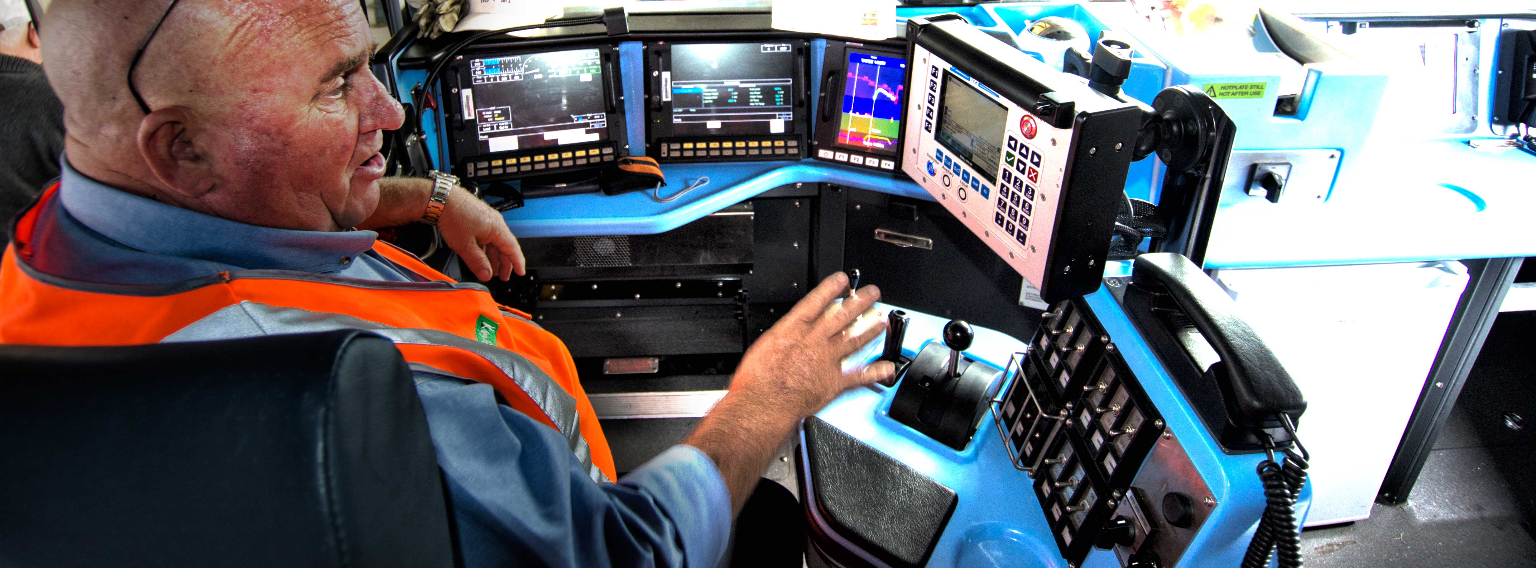 9307 Pacific National Class 44aci Locomotive Cab at Taree NSW